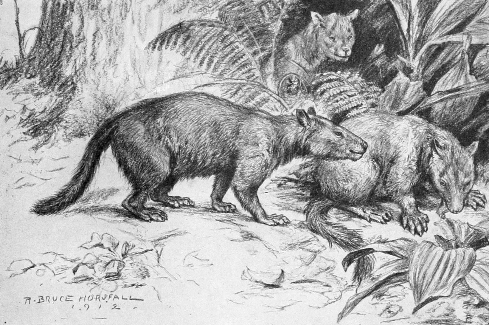 Life restoration of Meniscotherium chamense (formerly teraerubrae) from W.B. Scott's A History of Land Mammals in the Western Hemisphere. New York: The Macmillan Company.